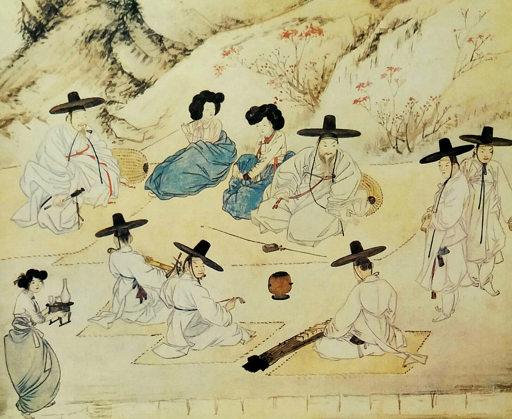 상춘야흥 (賞春野興) '혜원풍속도첩 (蕙園風俗圖帖)' 중에서, 서울 성북구 간송미술관 소장. The musicians are playing daegeum (bamboo flute), haegeum (two-string fiddle), and geomungo (7-string zither).